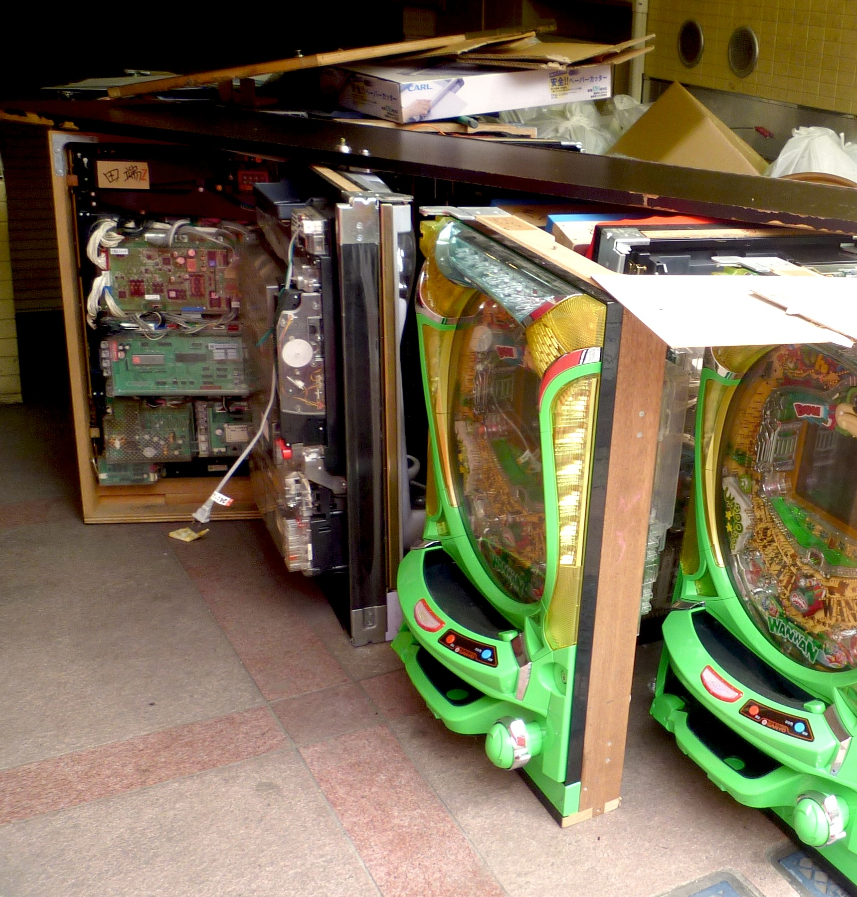 Pachinko (パチンコ) is a Japanese gaming device. This is the insides of a machine being removed from a pachinko parlor.